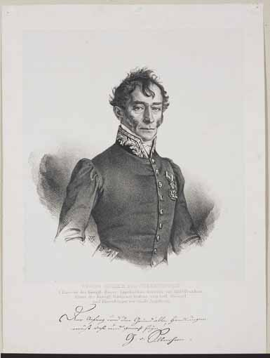 The bavarian judge Georg Edler von Silberhorn (1782-1854)